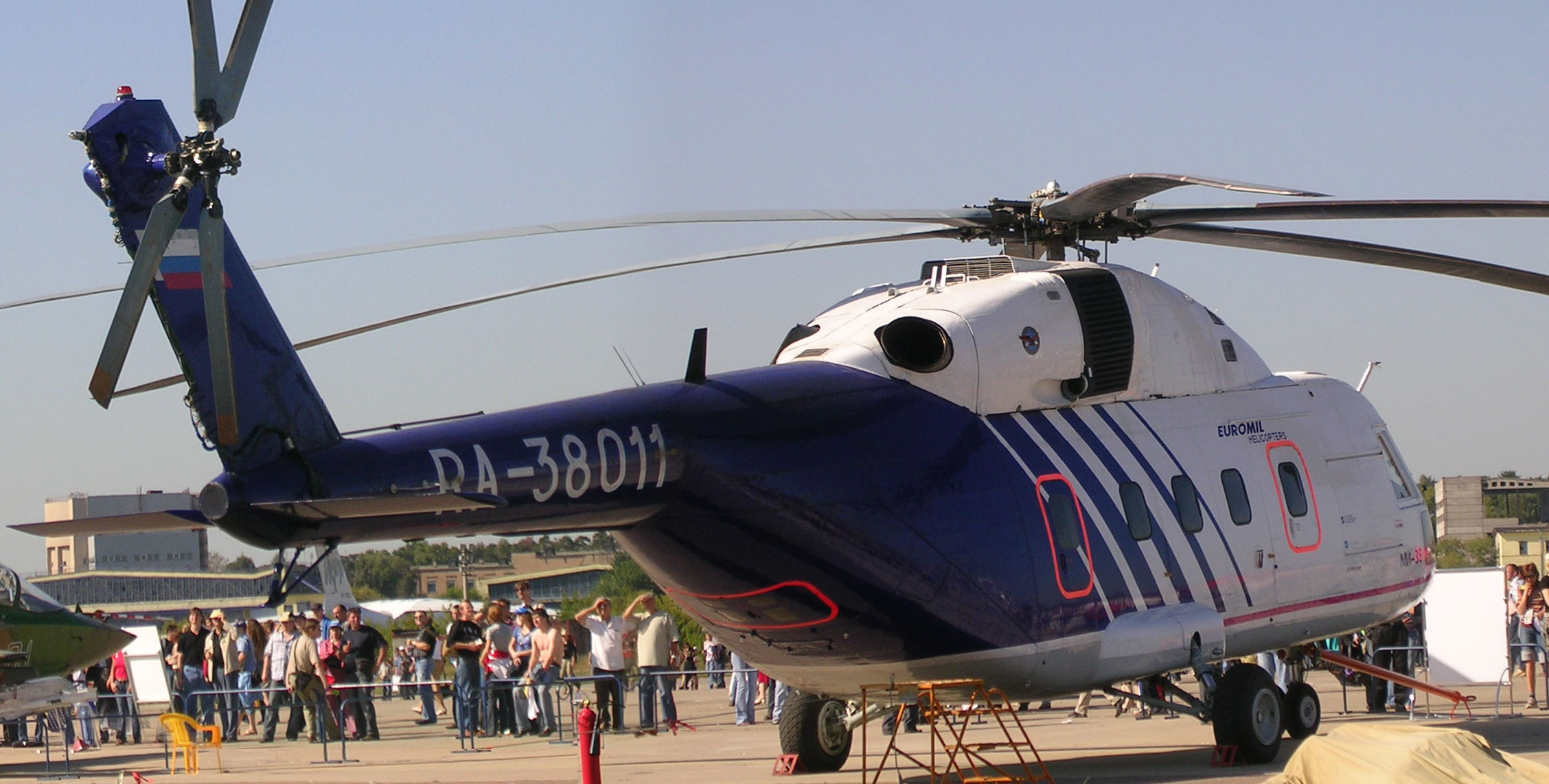 Mi-38 helicopter (RA-38011) on MAKS-2005 airshow